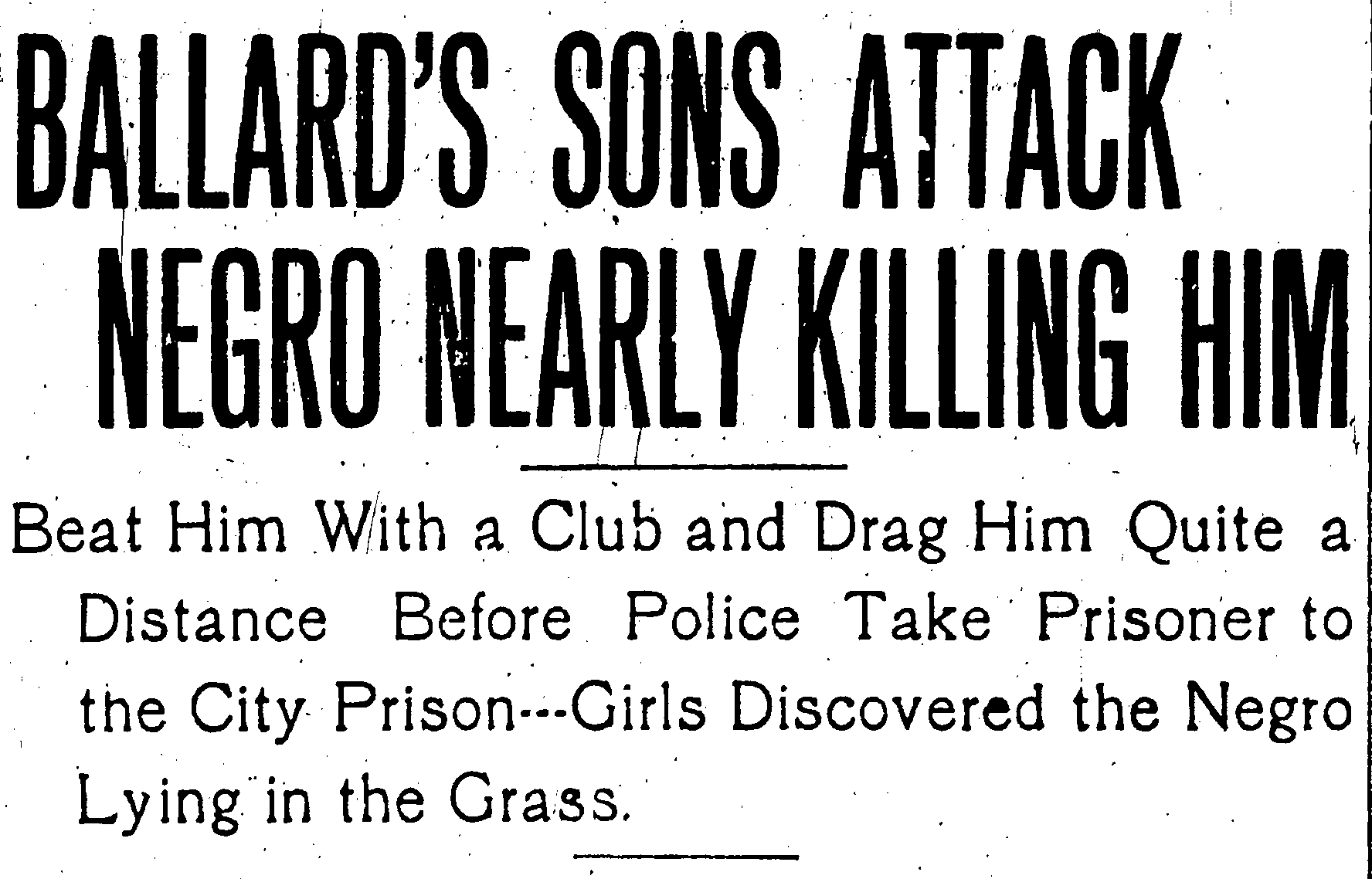 Daily Illinois State Register